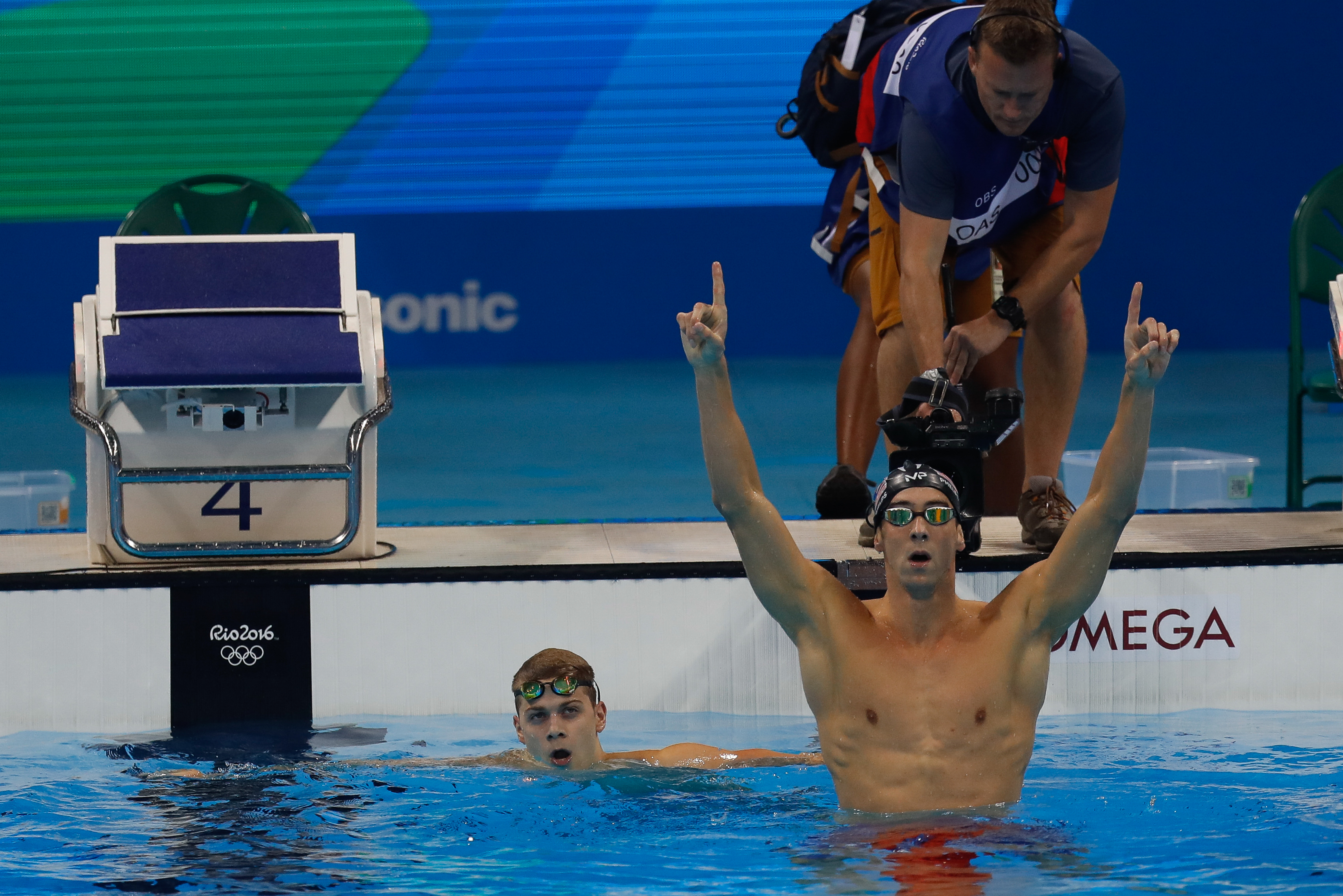 Rio de Janeiro - Michael Phelps, dos Estados Unidos, ganha sua 20ª medalha de ouro olímpica, nos 200m nado borboleta, nos Jogos Rio 2016. (Fernando Frazão/Agência Brasil)